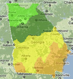 2009 Hardiness Zones Map for Georgia